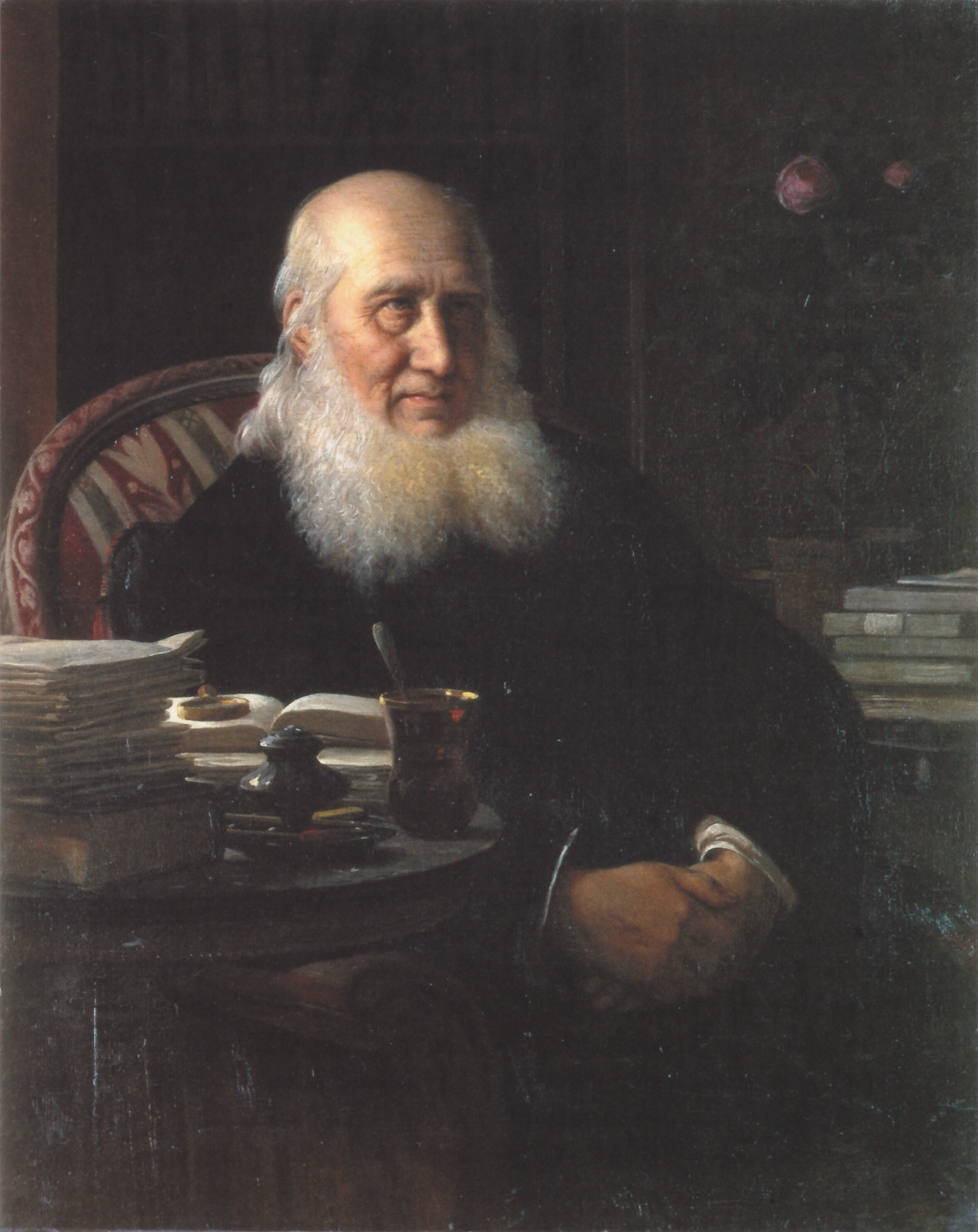 Although Grundtvig was almost 80 at the time, the painting shows him in fine shape, with opened books on the table.